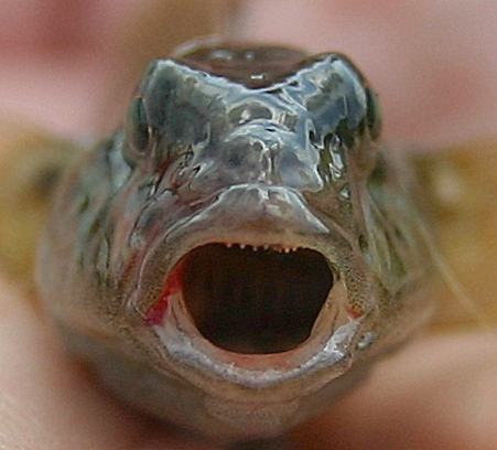 Mouth of round goby